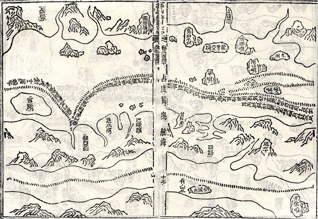 Zheng He's sailing charts, p. 17.